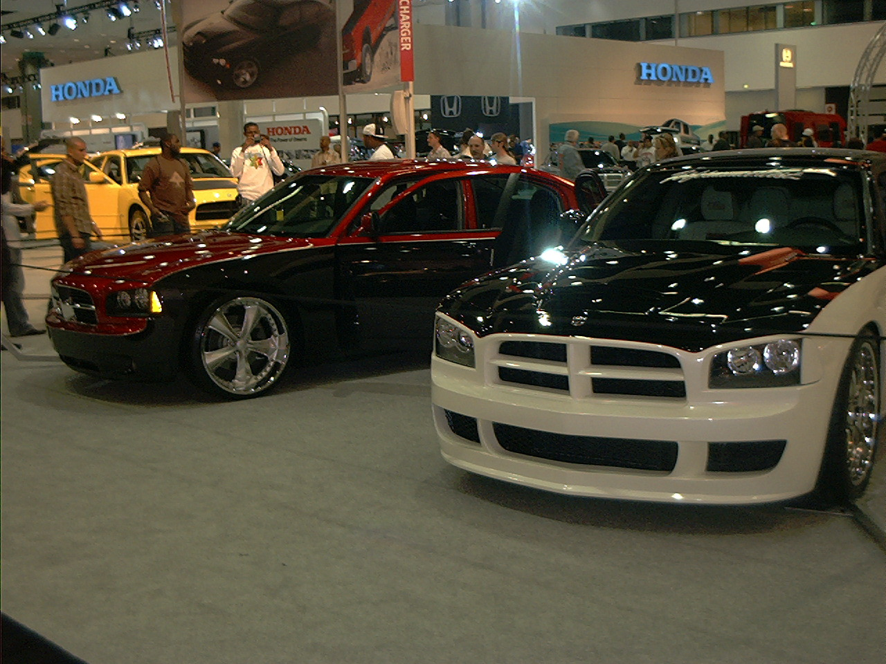 A picture of the Los Angeles Auto Show, at the Dodge exhibit. (Picture taken by The Helper S)